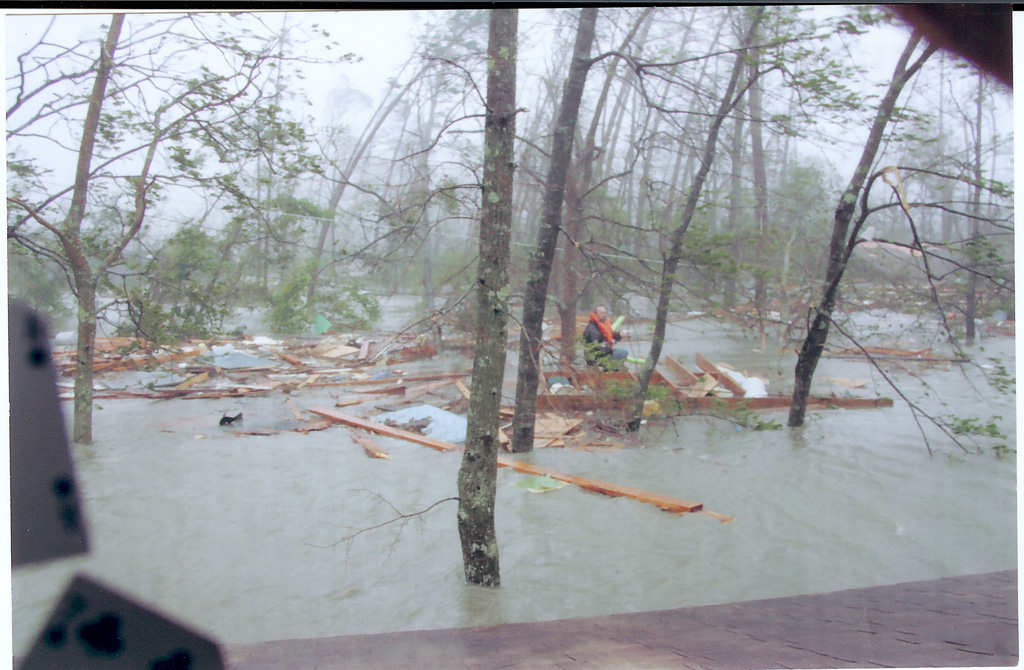 Photo taken in Waveland, MS, just North of the Railroad Tracks during Katrina around 9 AM by Judith Bradford. --Arrmed 22:42, 24 June 2006 (UTC)